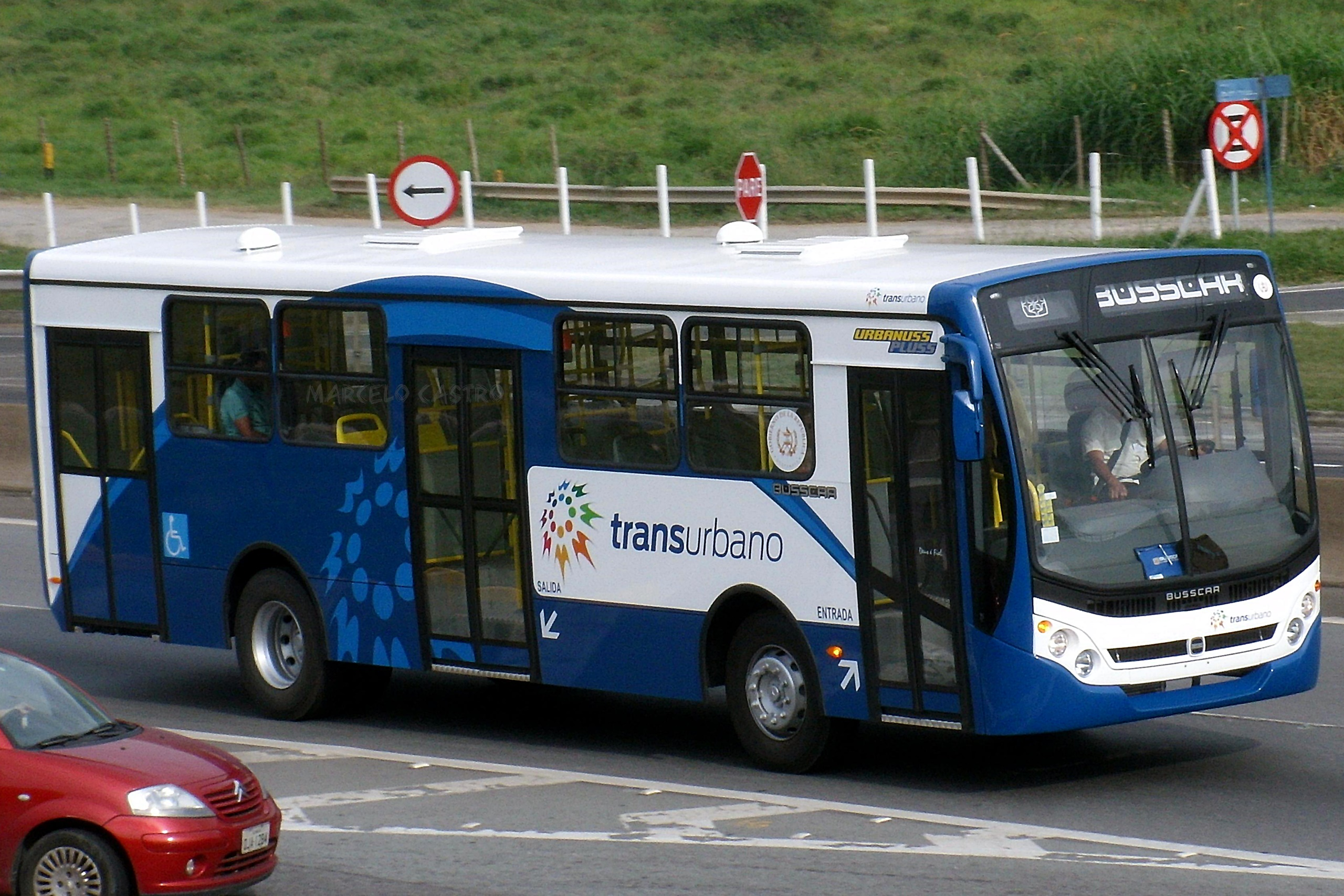 Transurbano Ciudad de Guatemala